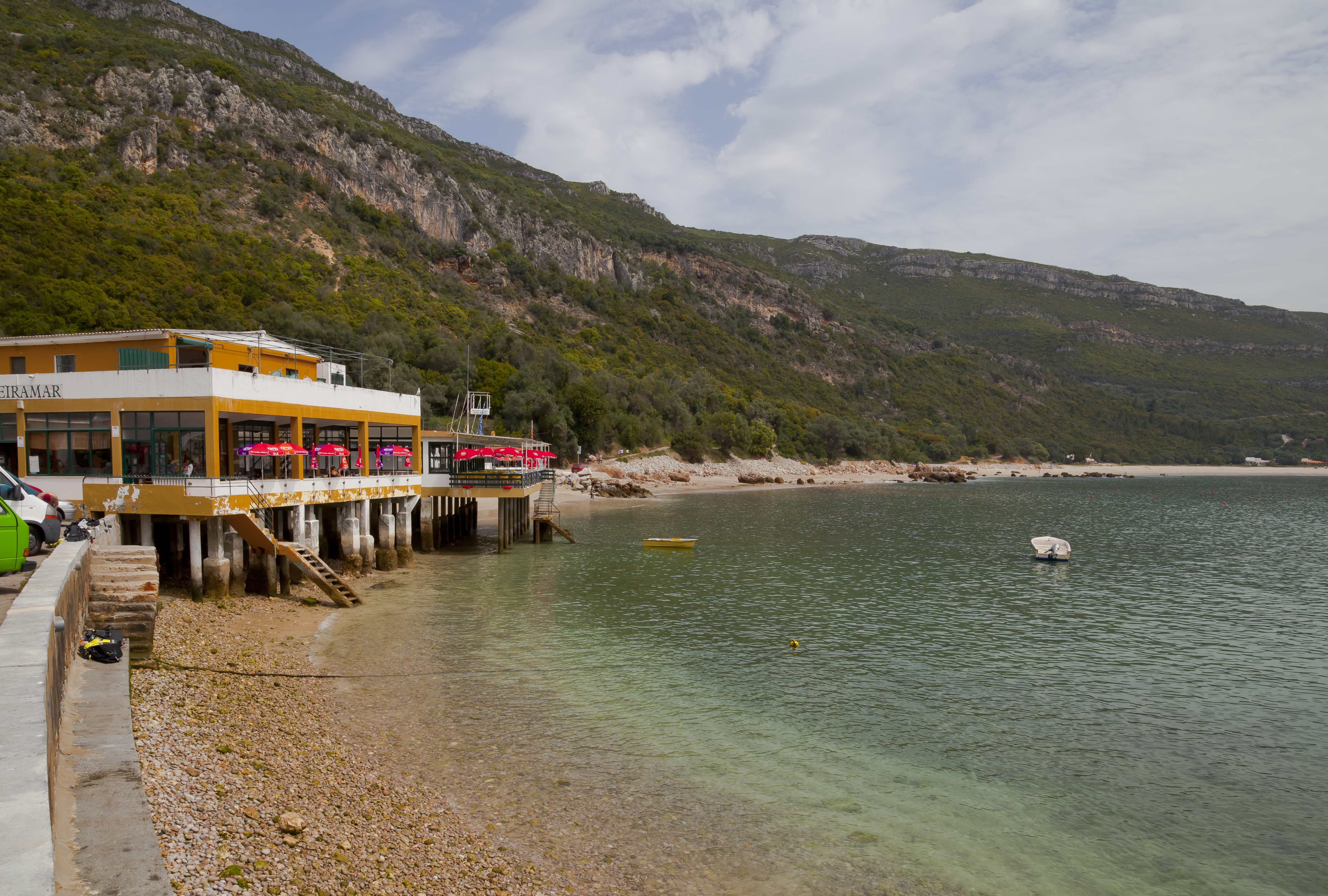 Natural Park of Arrabida, Setubal, Portugal